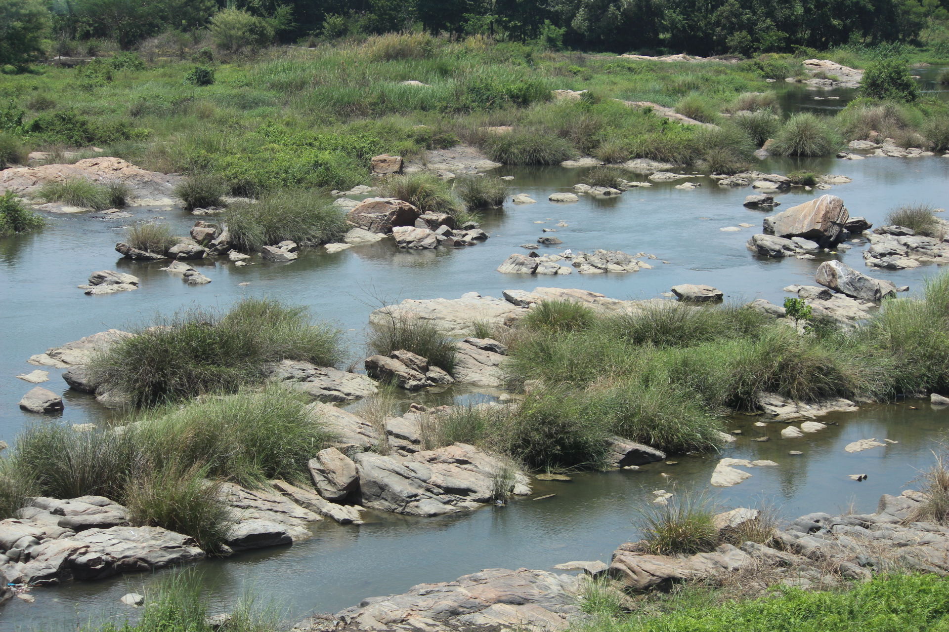 Rocks in the river bed of Srirangapattana near Mysuru, Karnataka, India